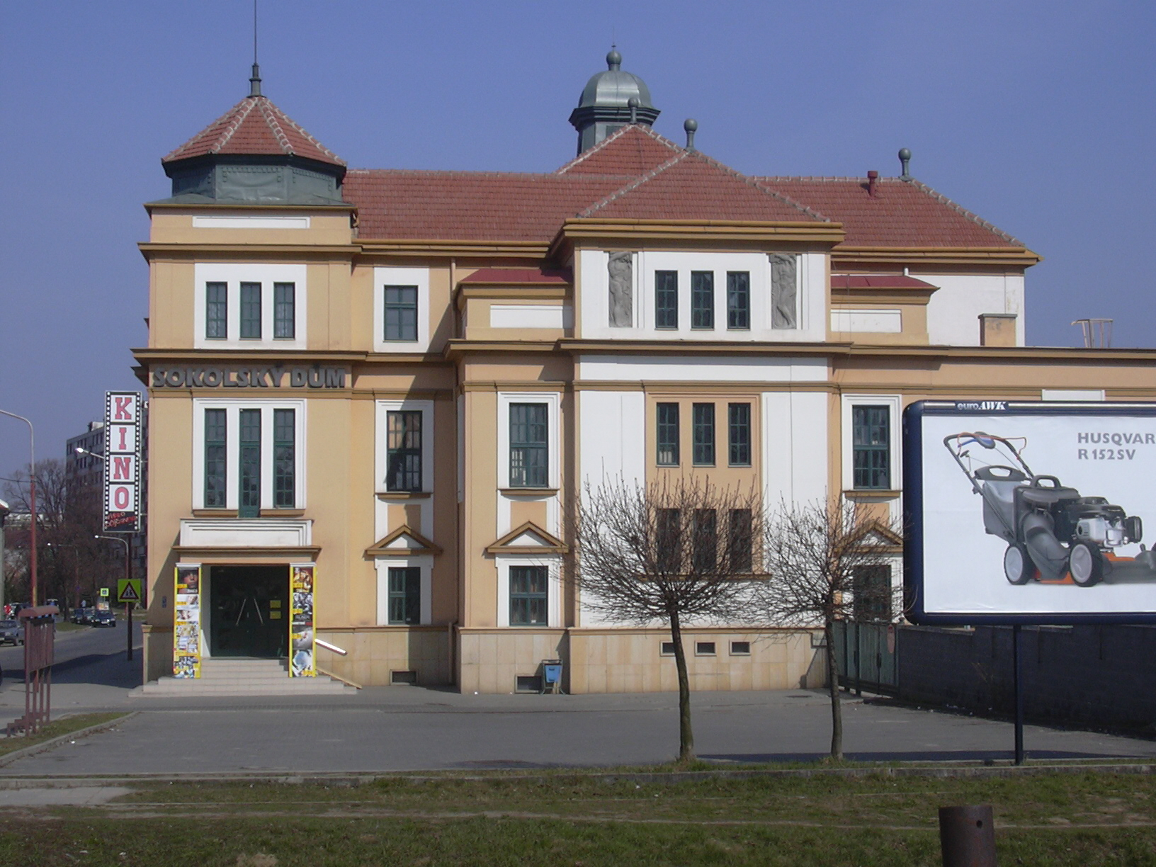 Sokol house in Vyškov, Czech Republic.